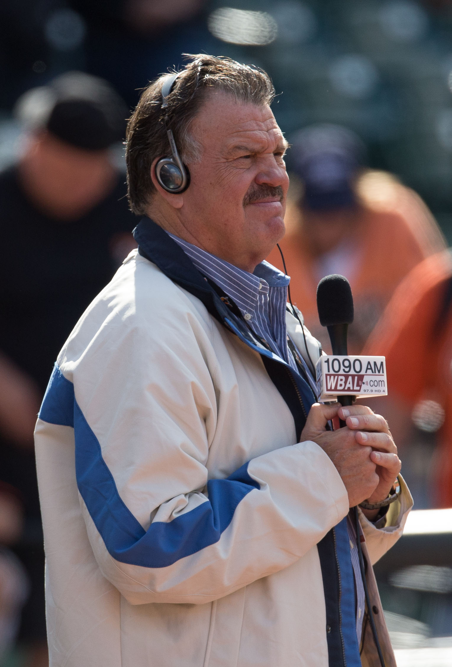 Baltimore Orioles broadcaster Fred Manfra – Los Angeles Dodgers at Baltimore Orioles April 20, 2013